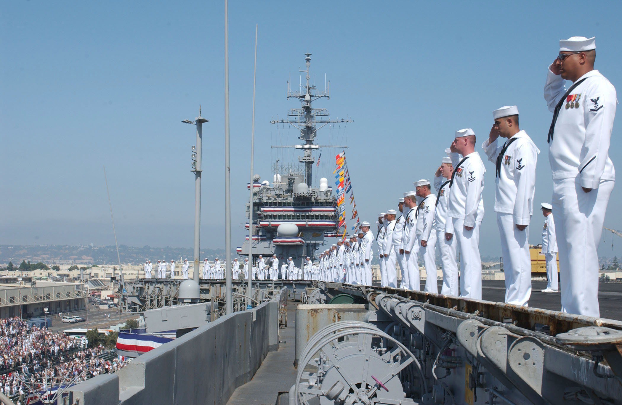 Naval Air Station North Island, Calif. (Aug. 7, 2003) -- Sailors aboard USS Constellation (CV 64) render honors with the playing of the National Anthem during the decommissioning ceremony for Constellation. The ceremony, held at Naval Air Station North Island, marked the end of the carrier's nearly 42 years of service to the nation. During Constellation’s commissioned service, she completed 21 deployments and most recently completed combat operations in support of Operation Iraqi Freedom. Constellation, decommissioned in San Diego at the Naval Air Station North Island, will be towed to Bremerton, Wash., where she will remain in Puget Sound Naval Shipyard. Constellation is the second oldest aircraft carrier in the Navy and one of only three remaining conventionally powered aircraft carriers in its arsenal.